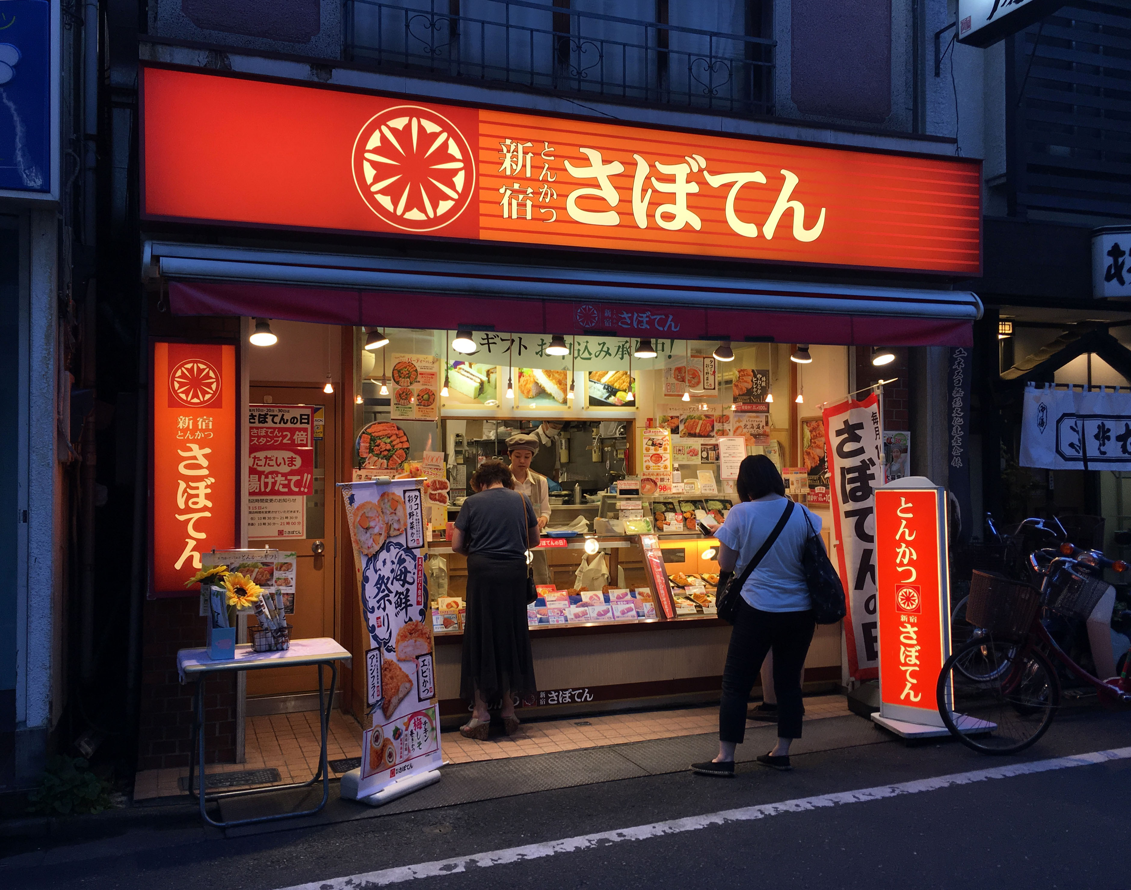 Shinjuku-Saboten Delica (Japanese delicatessen) Nagasaki-Ginza-Shotengai branch (Tokyo, Japan)